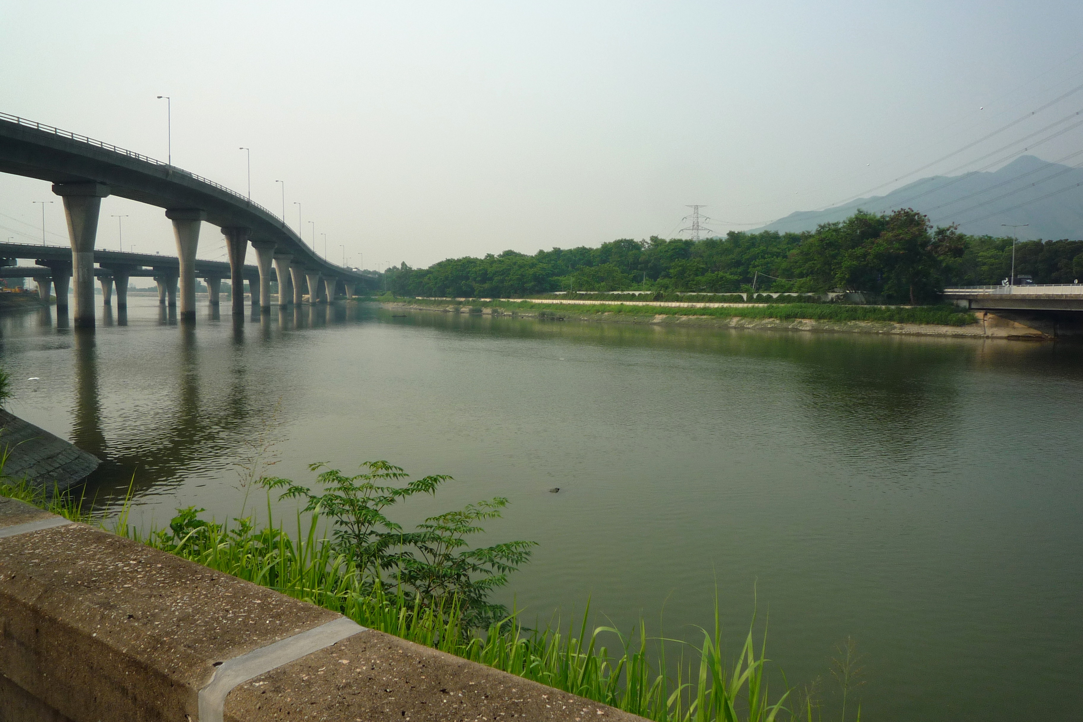 Kam Tin River near the Yuen Long Highway, heading towards the north west.